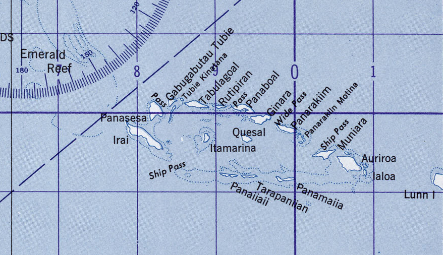 portion of original map, cropped for Conflict Group (Atoll), Milne Bay Province, Papua New Guinea